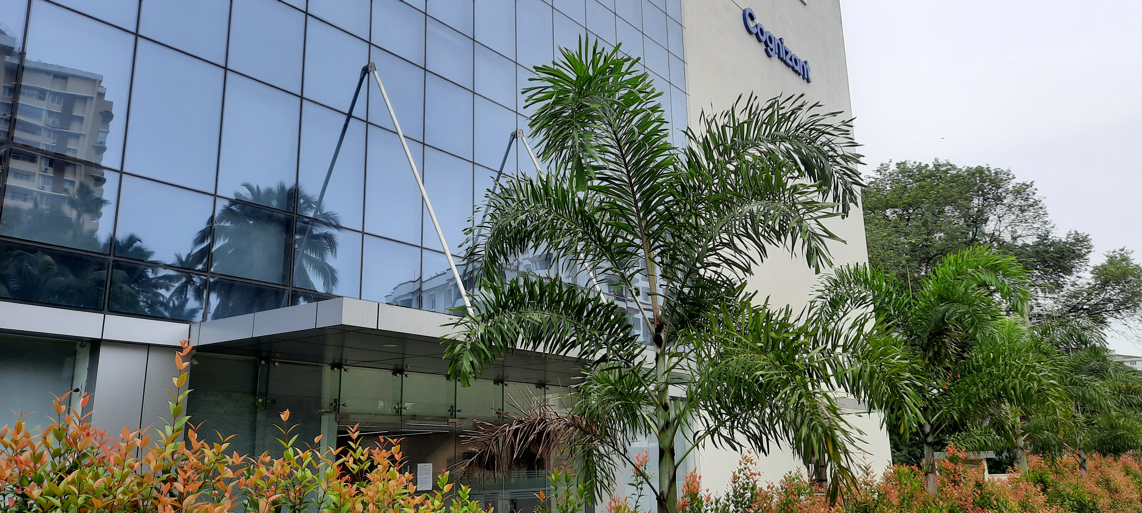 Cognizant (CTS) campus at Bendoor in Mangalore city